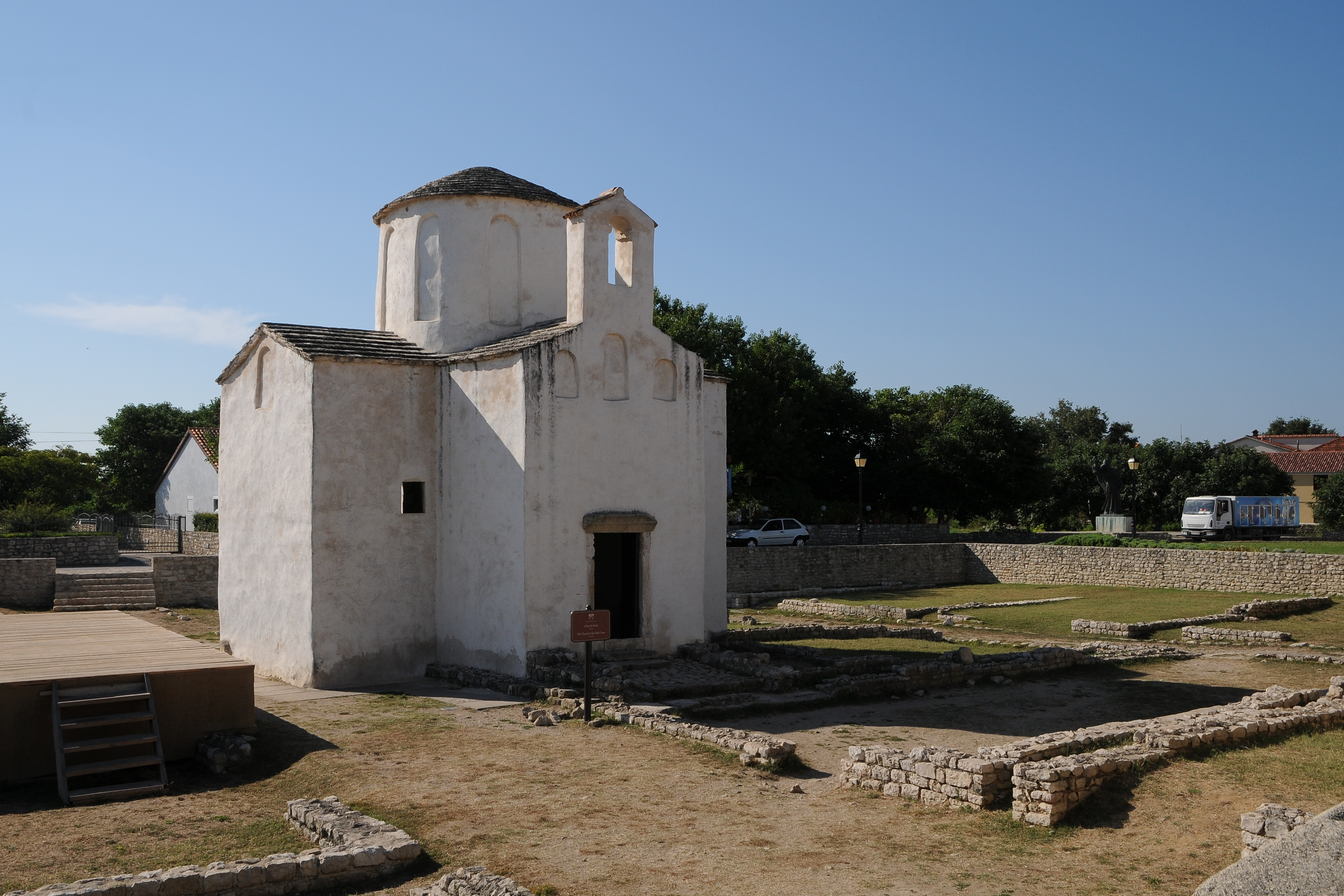 Nin, Croatia - Church of St. Cross